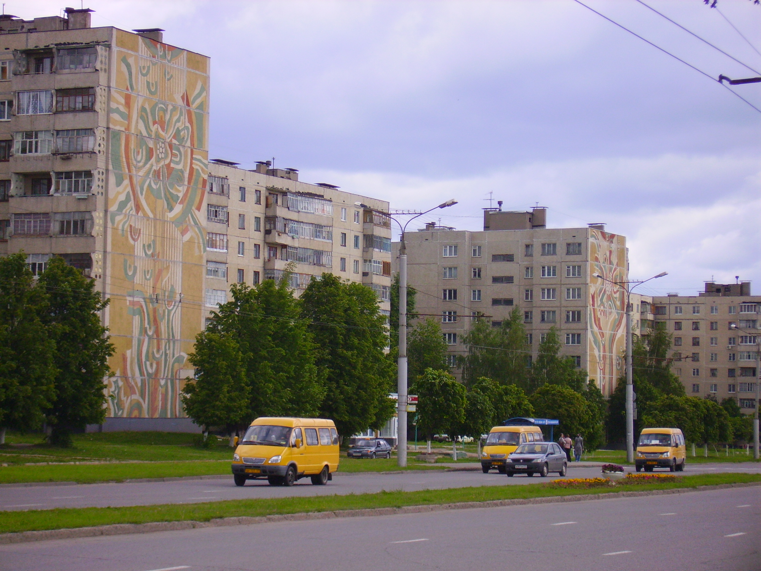 Prospekt Traktorostroiteley (Tracktor-makers Avenue). Soviet apartment buildings of 1980s.